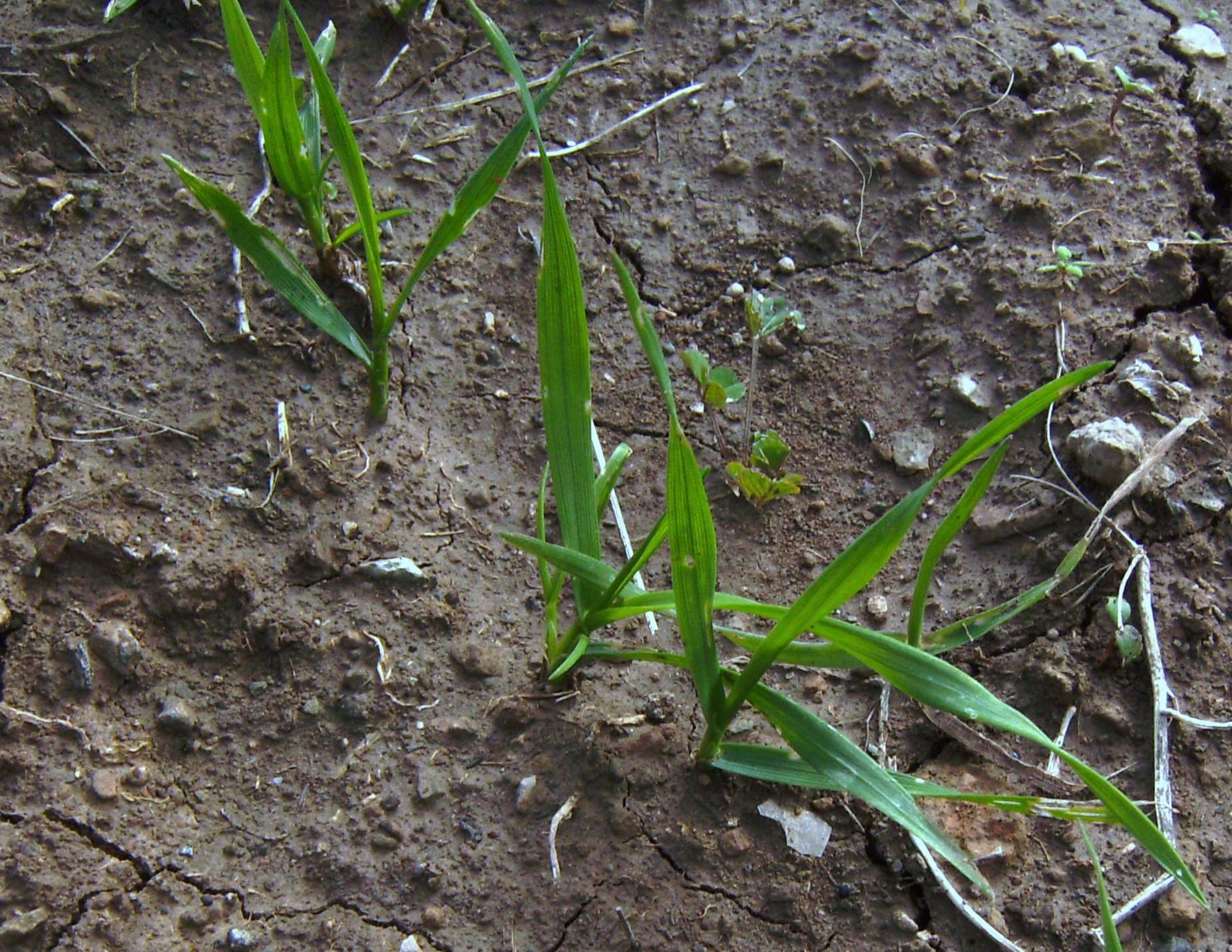 "Triticun aestivum" (wheat) plants with three leaves stage